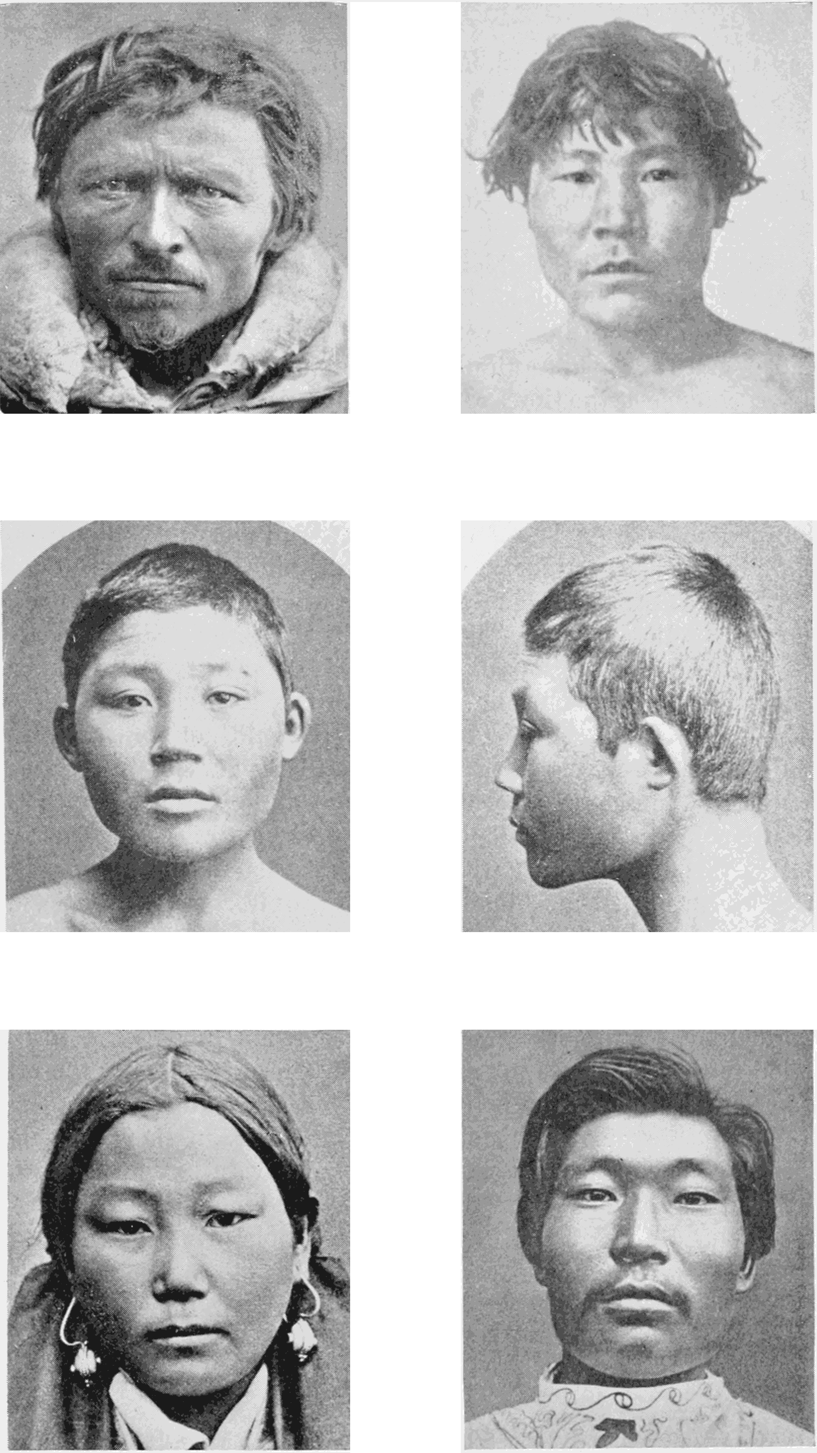 Mongol types